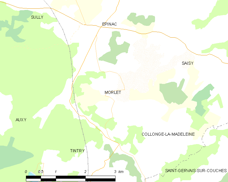 Map of French municipality